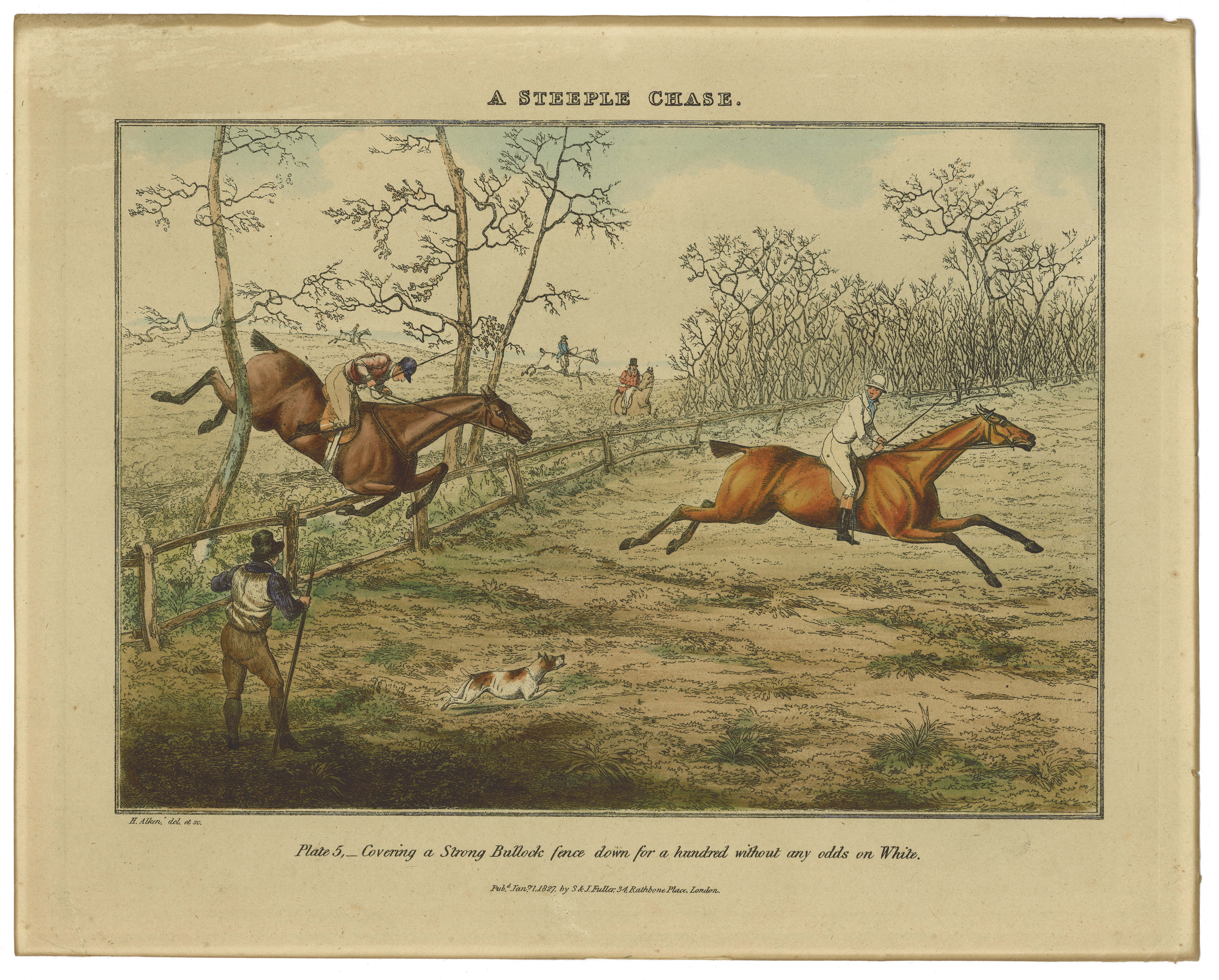 Published January first, 1827, by S. & J. Fuller, 34, Rathbone Place, London.